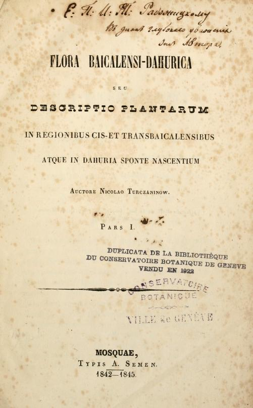 Title of the "Flora Baicalensi-Dahurica, seu, Descriptio plantarum in regionibus Cis- et Transbaicalensibus atque in Dahuria sponte nascentium" by Nicolaus Turczaninow